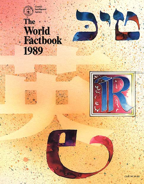 Cover of the World Factbook. 1989